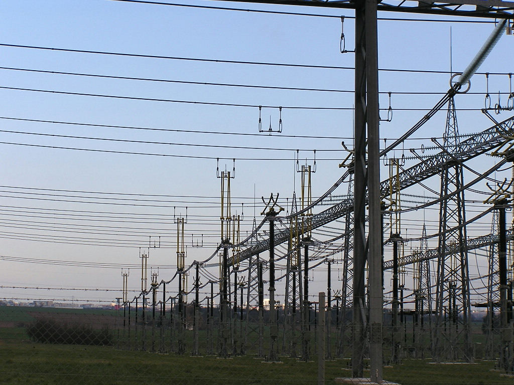 Kriftel substation - Switchgear for 380,000 Volts